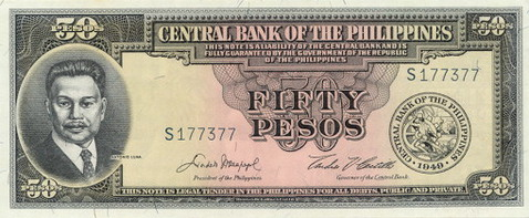 Php 50-peso English series bill (observe)